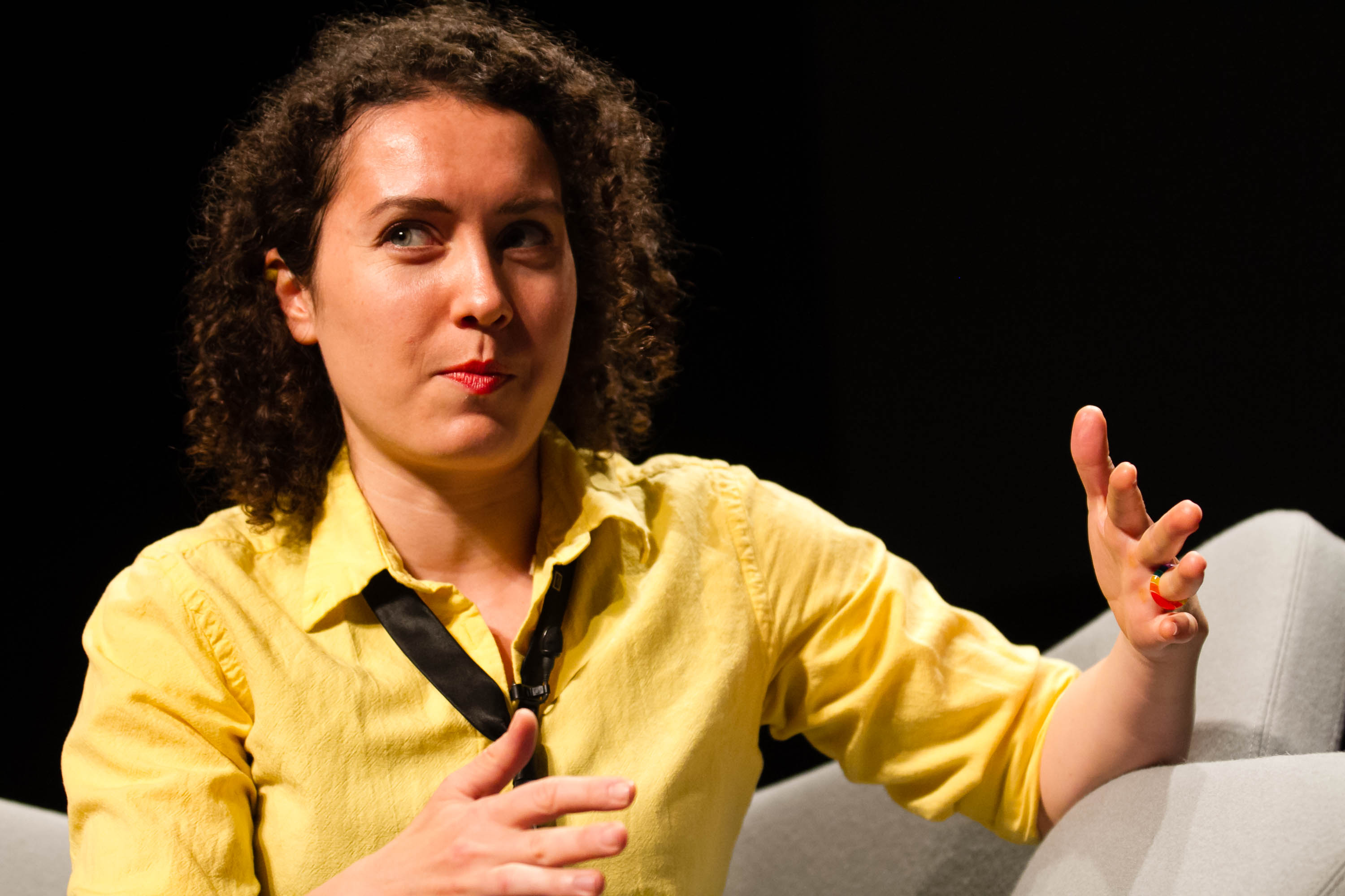 Maria Popova at PopTech 2014.